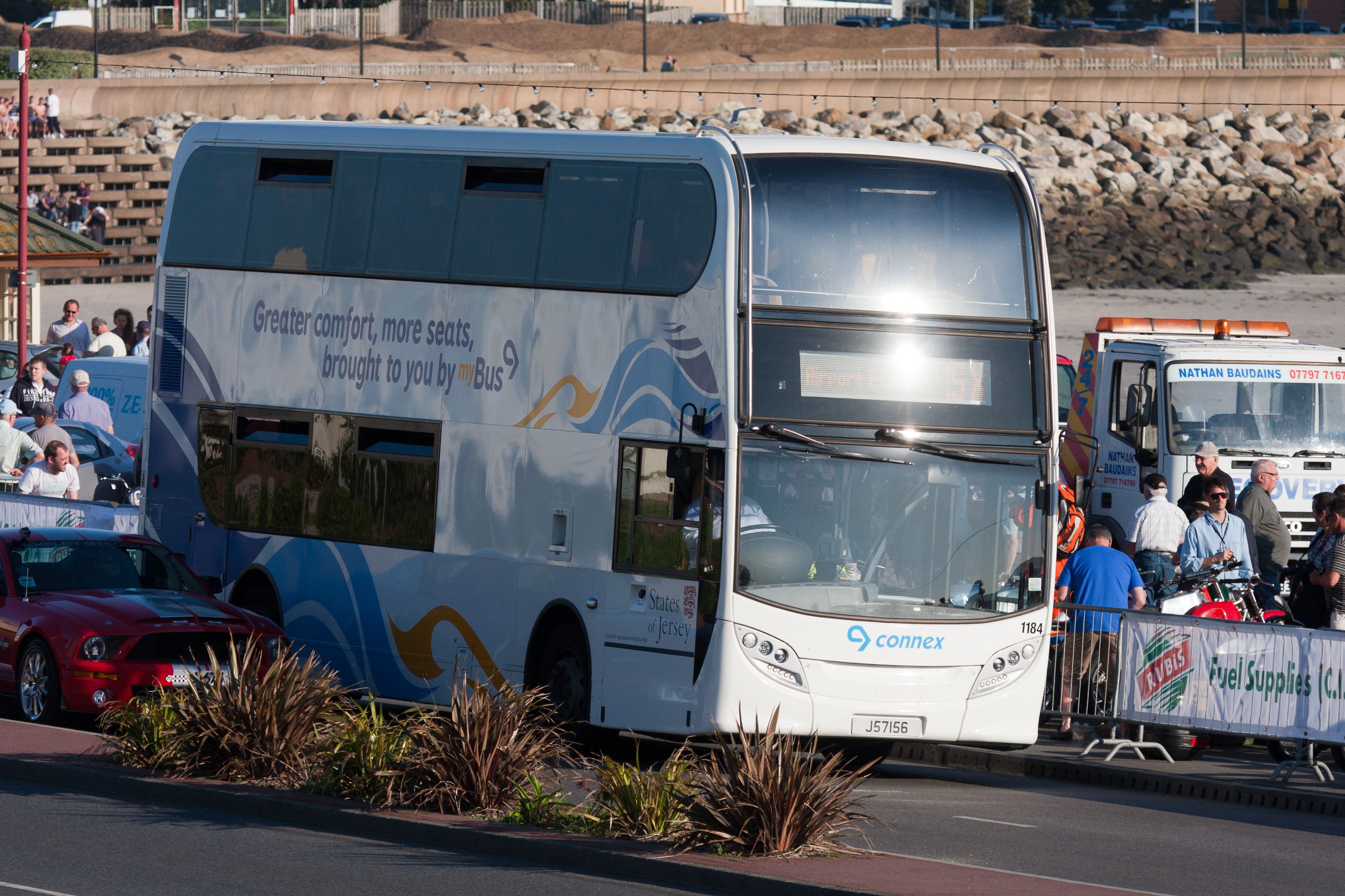 Double-decker bus in St. Helier, Jersey.